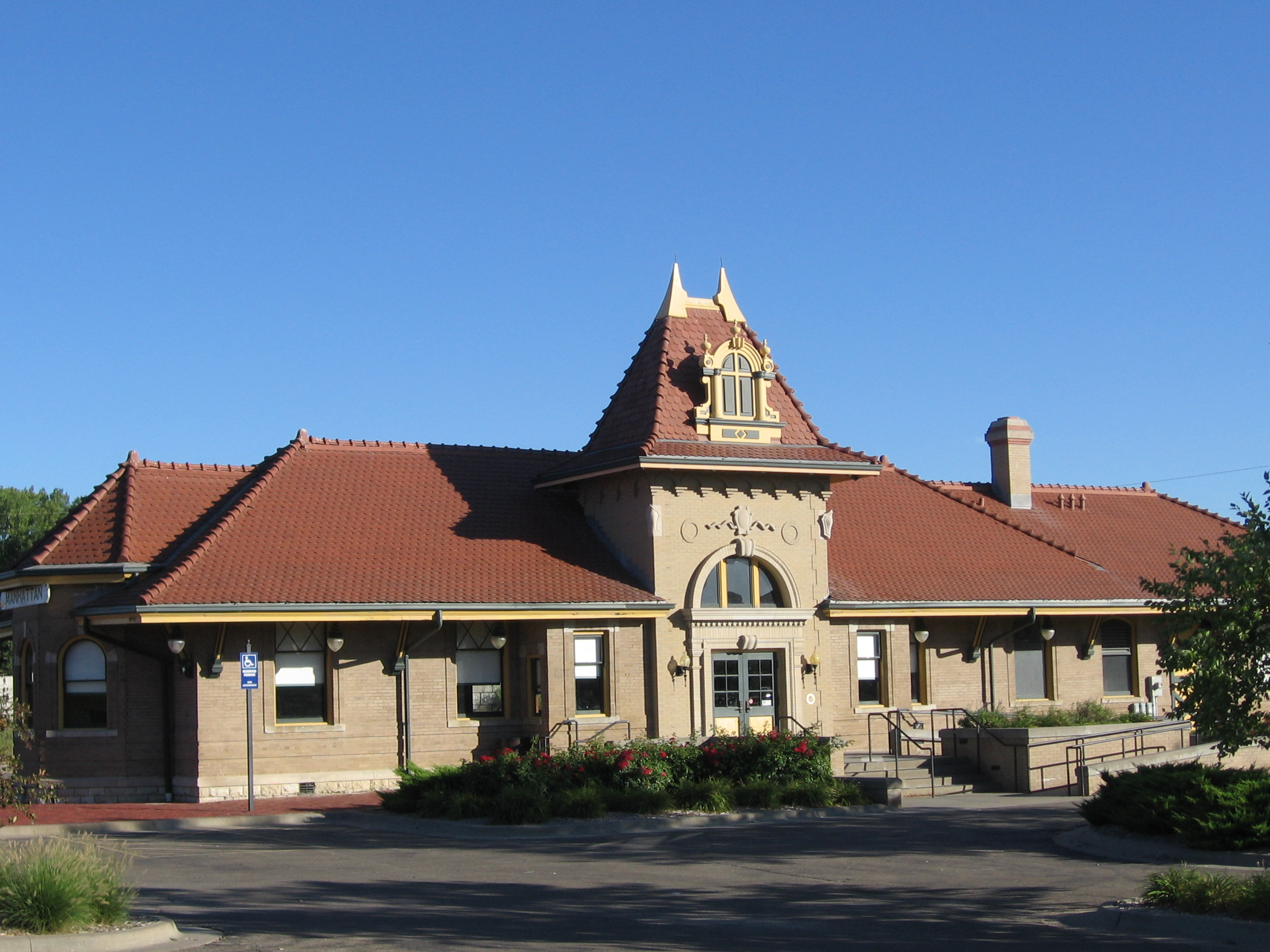 renovated Union Pacific station in Manhattan, Kansas